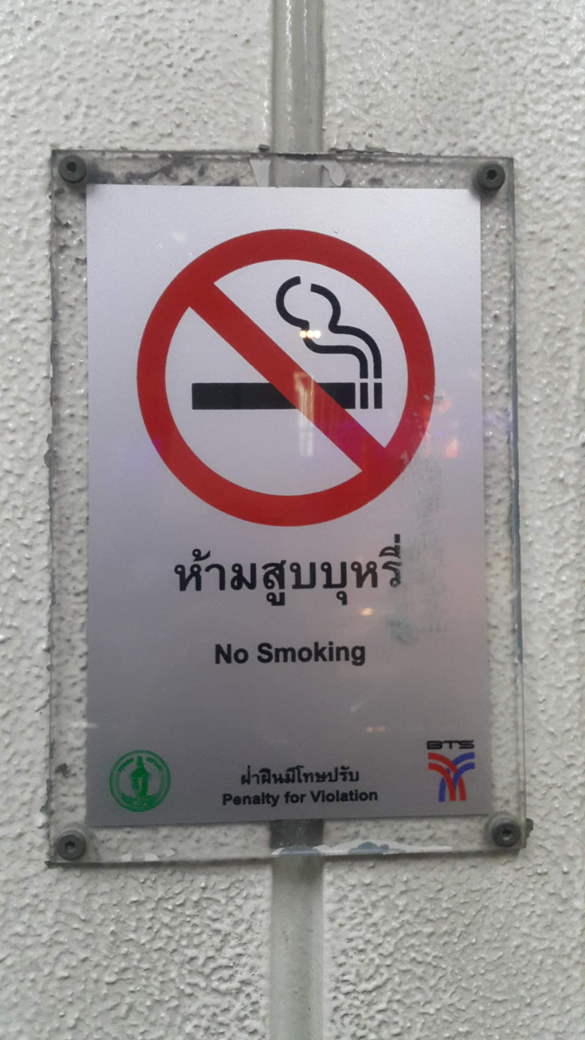 No speaking sign at a BTS Station in Bangkok with Thai words